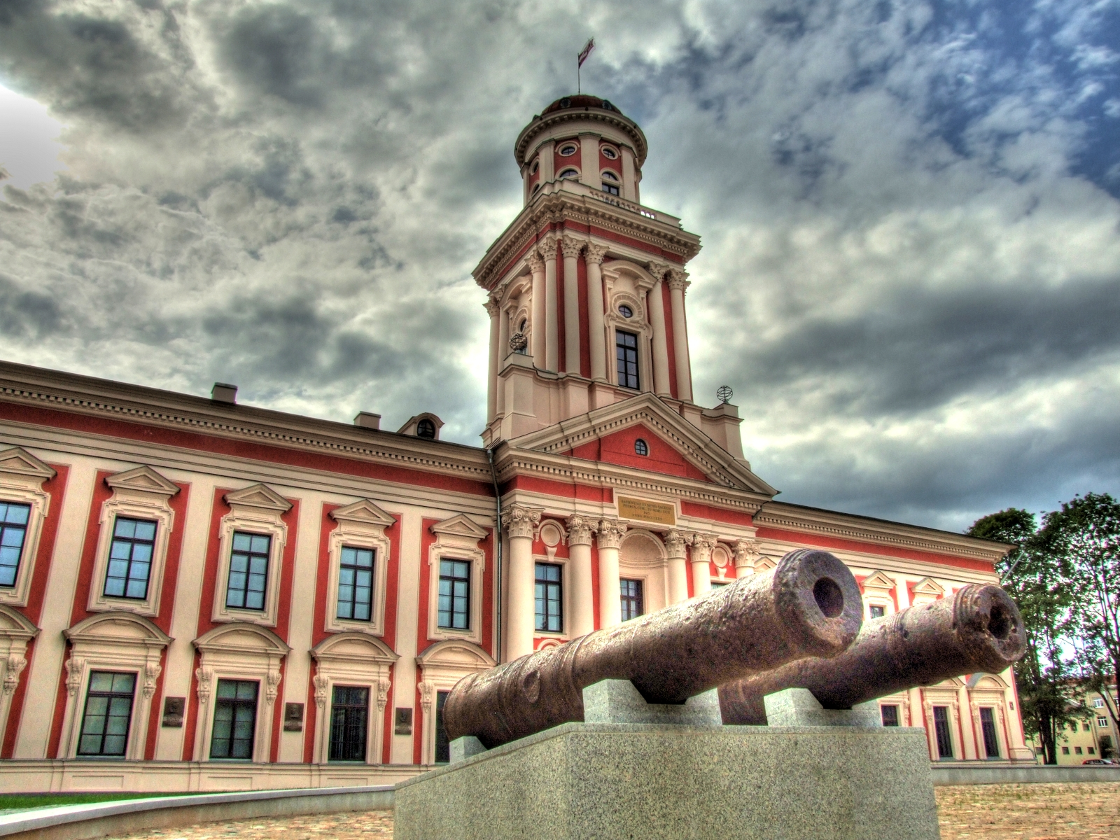 Academia Petrina, Latvia.